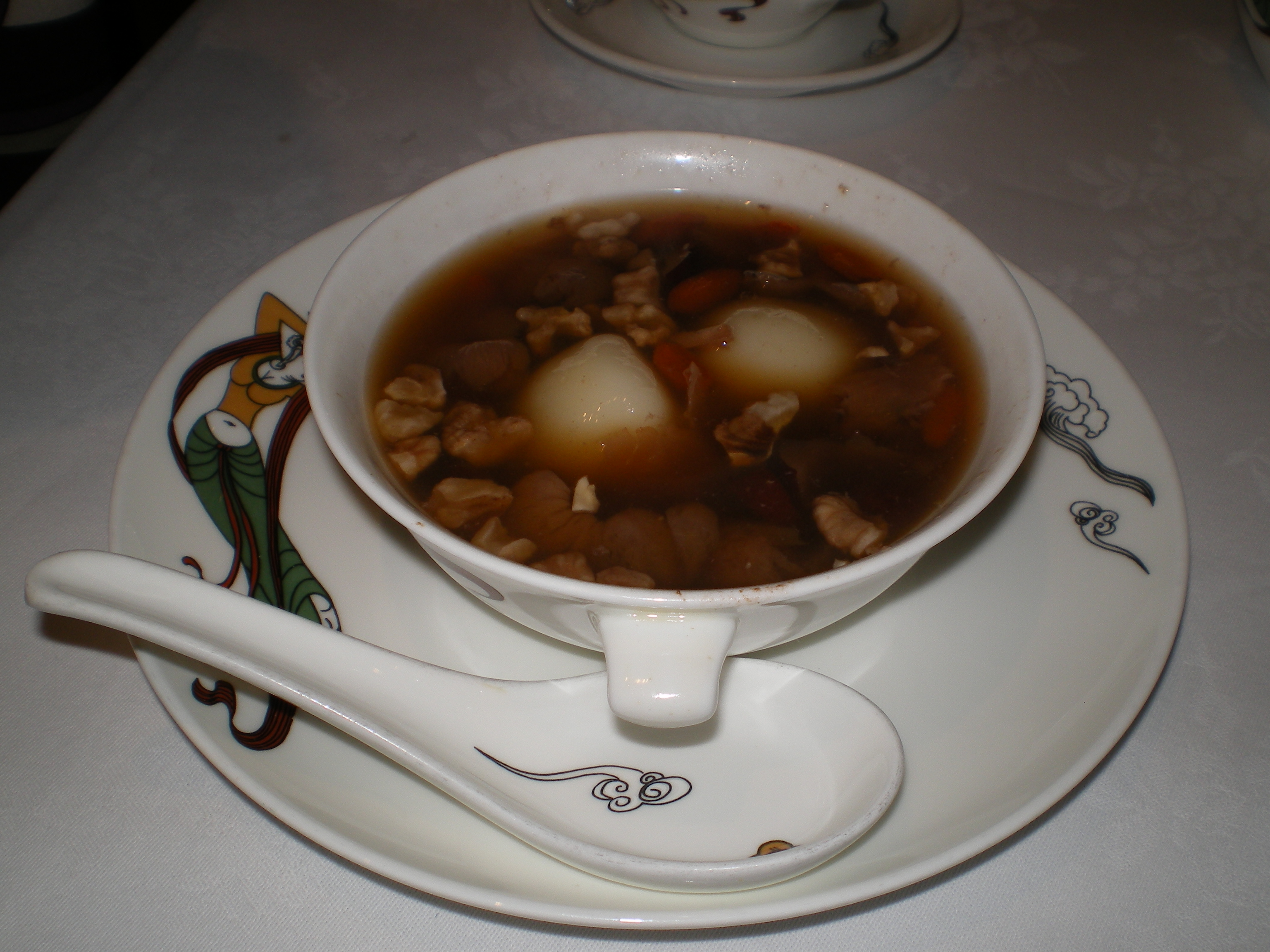 Chinese Sweet Dumplings, some type of sweet dumplings from Malaysia.